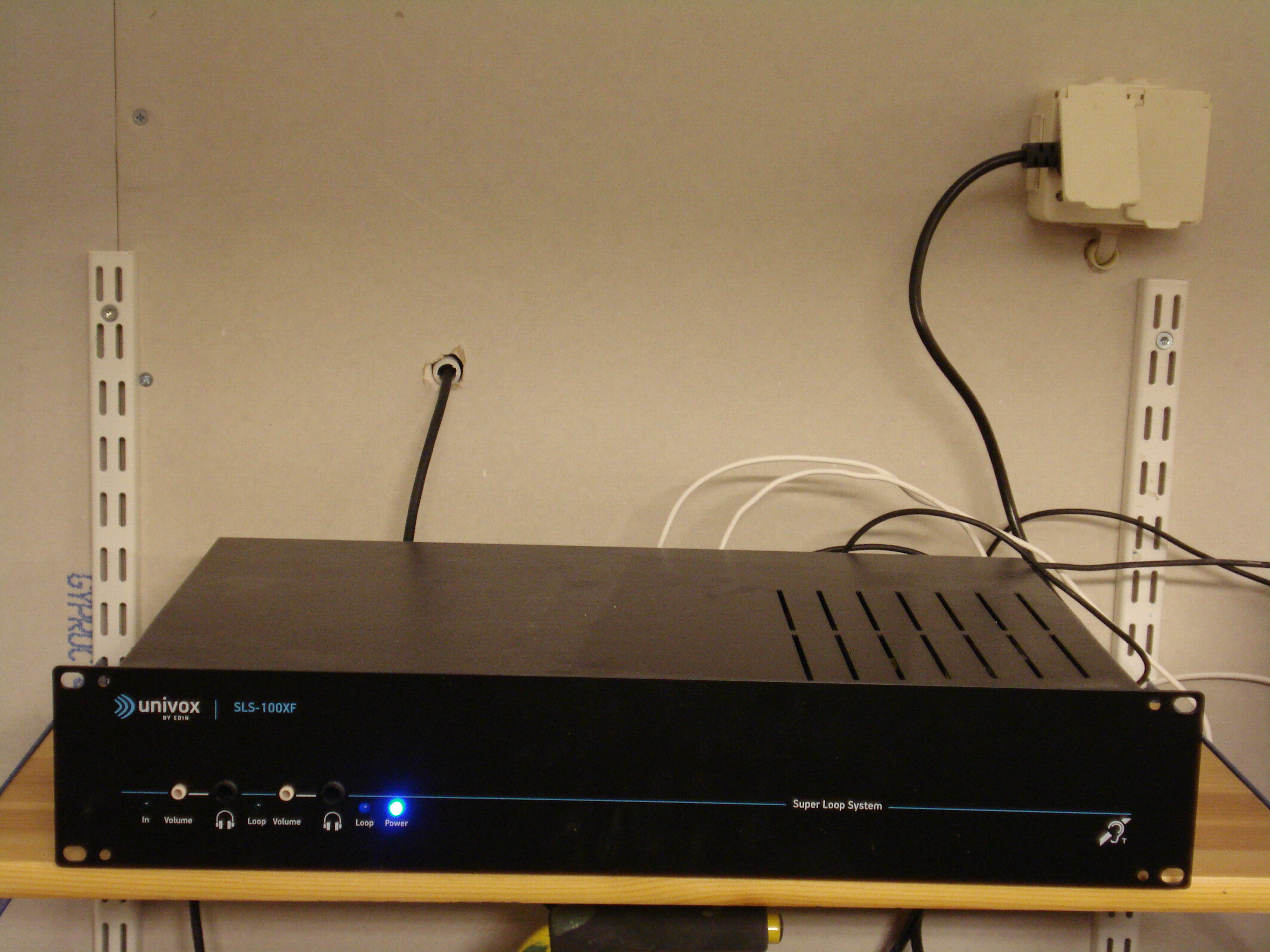 Swedish made amplifier for audio induction loop mounted in 19 rack.